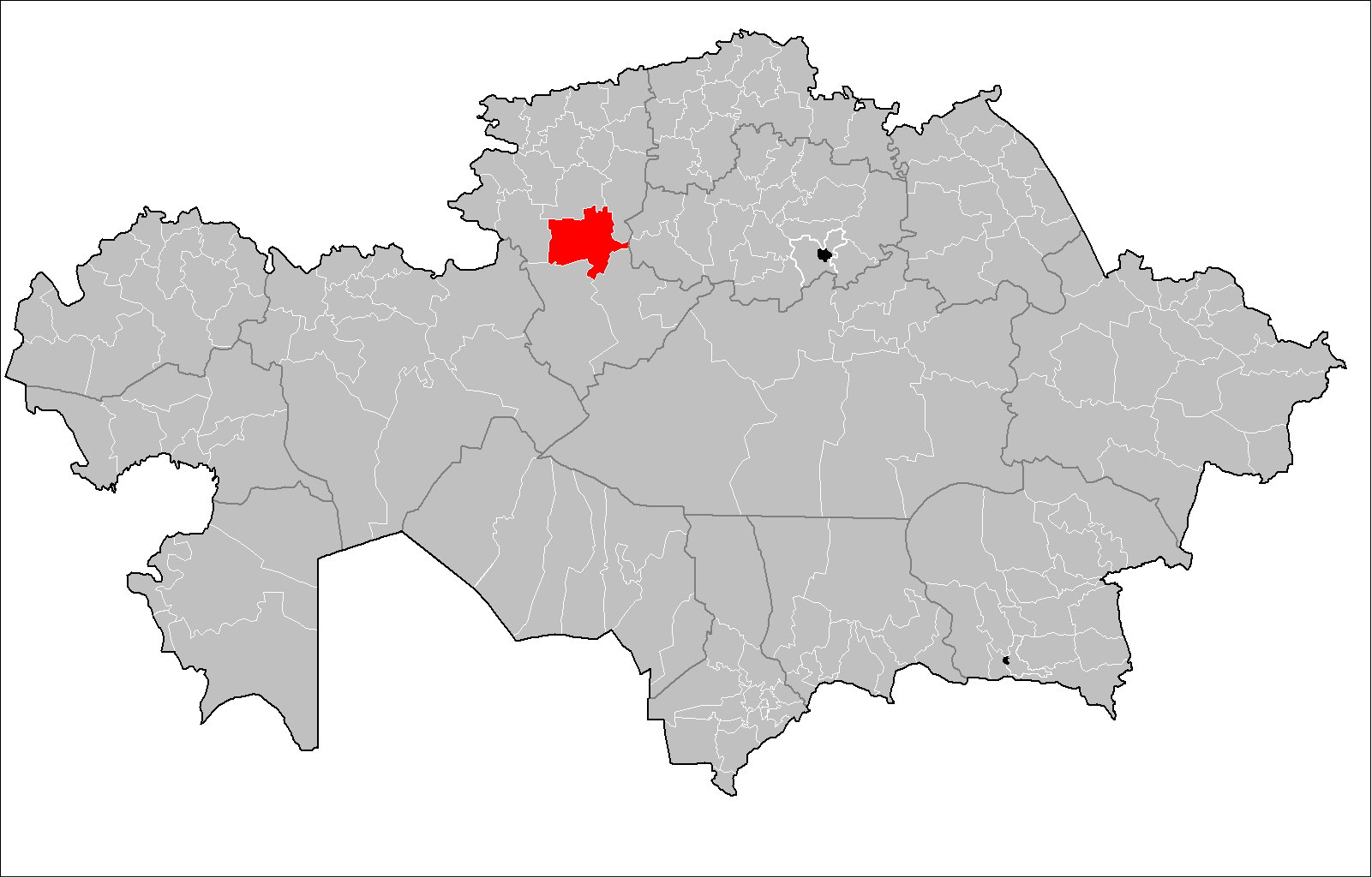 Map of the rayons of Kazakhstan. Created by Rarelibra 16:49, 3 August 2007 (UTC) for public domain use, using MapInfo Professional v8.5 and various mapping resources.